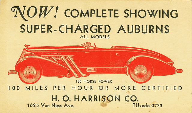 1935 Auburn Speedster, advertisement on penny postcard